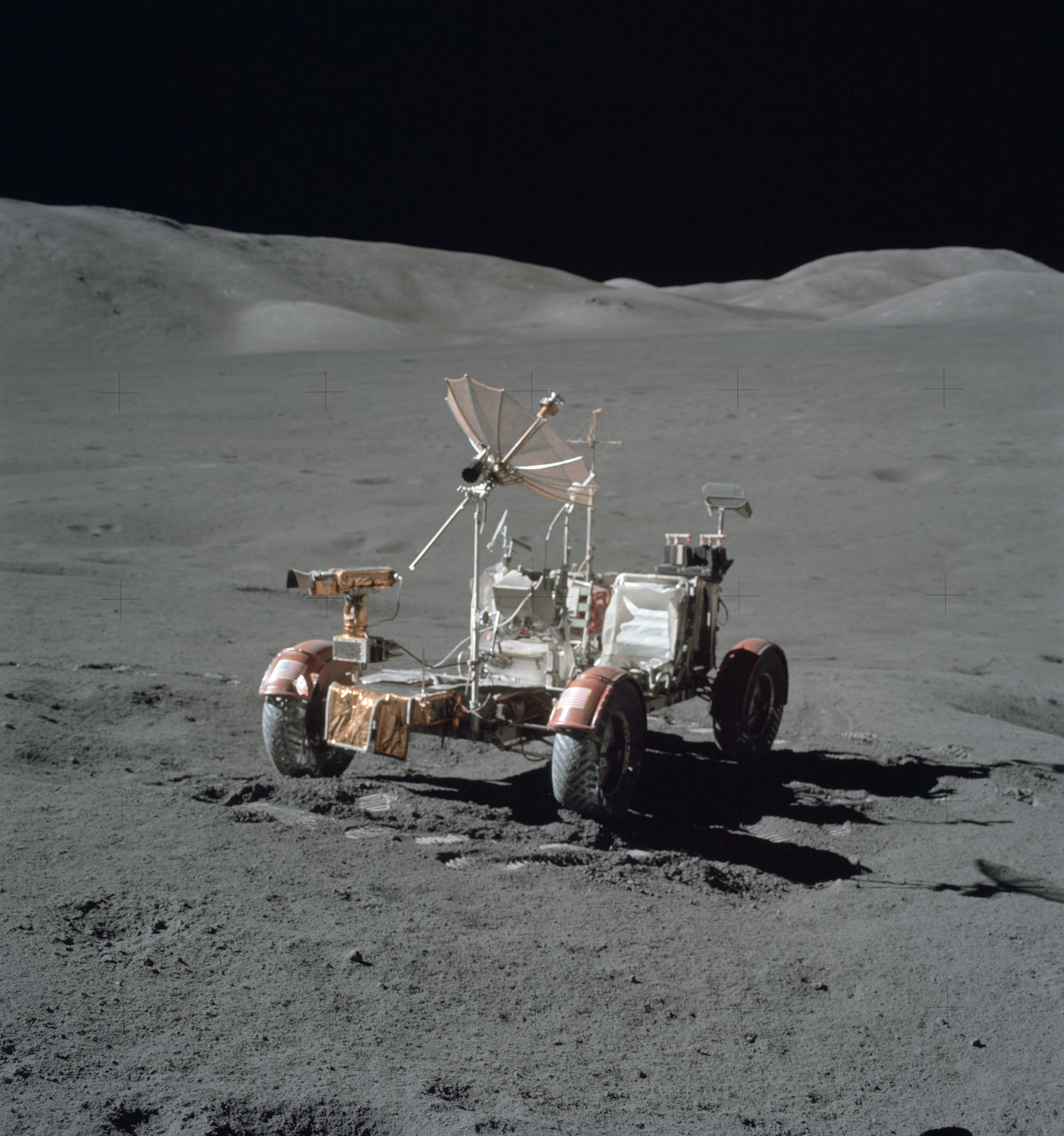 Lunar rover near station 8 Apollo 17. This picture shows the TV camera pointed off to the left and the high-gain antenna pointed back towards Earth, which is over the South Massif. The low-gain antenna, which is partially hidden by the high-gain is also pointed at Earth. The SEP antenna is behind Schmitt's seat and the rake for the explosive charges is visible on the back of the Rover. The East Massif is at the upper right. The dark blemish on the East Massif foothill above and slightly to the right of the SEP antenna is the outcrop area that Cernan notes as he and Schmittk leave Station 8